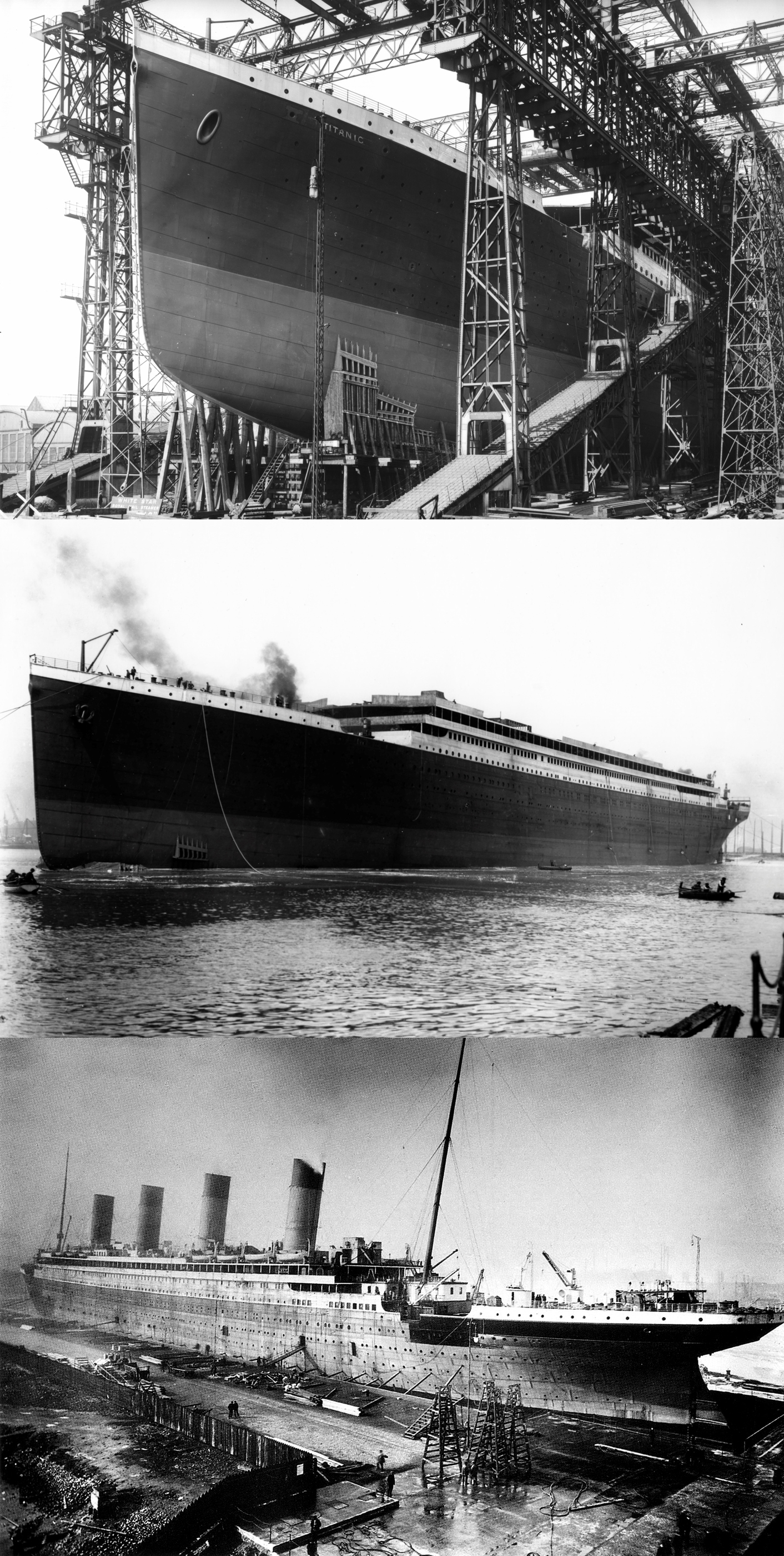 Derived from RMS_Titanic_ready_for_launch,_1911.jpg, Titanic_launched_at_Belfast.jpg and Titanic_under_construction.jpg